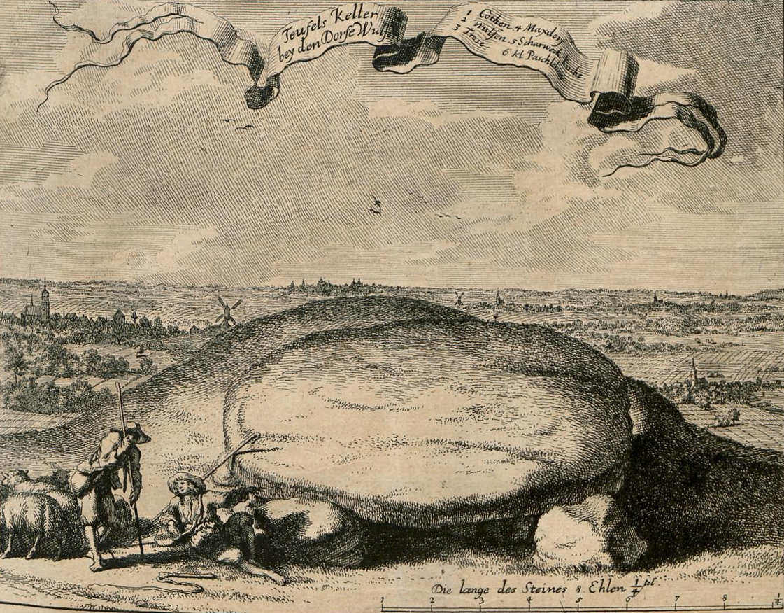 Dolmen "Teufelskeller" at Drosa, depicted in Johann Christoph Bekmann: Historie Des Fürstenthums Anhalt Von dessen Alten Einwohnern und einigen annoch verhandenen Alten Monumenten / Natürlicher Bütigkeit / Eintheilung / Flüssen / Stäten / Flecken und Dörfern / Fürstl. Hoheit / Geschichten der Fürstl. Personen / Religions-Handlungen / Fürstlichen Ministris, Adelichen Geschlechtern / Gelehrten / und andern Bürger-Standes Vornehmen Leuten. 1.–4. Teil, Zerbst 1710 [1].